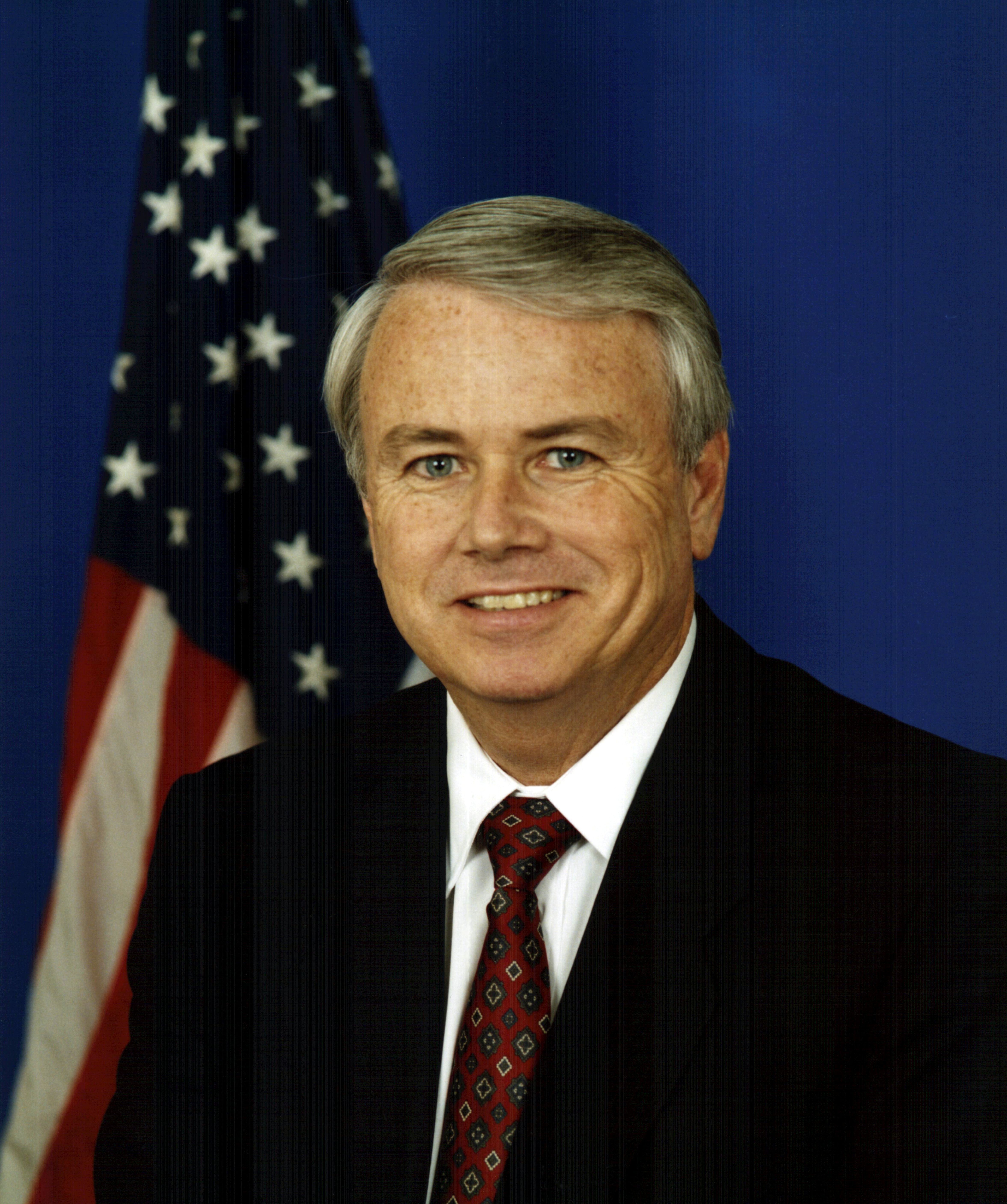 Portrait of US Rep Elton Gallegly